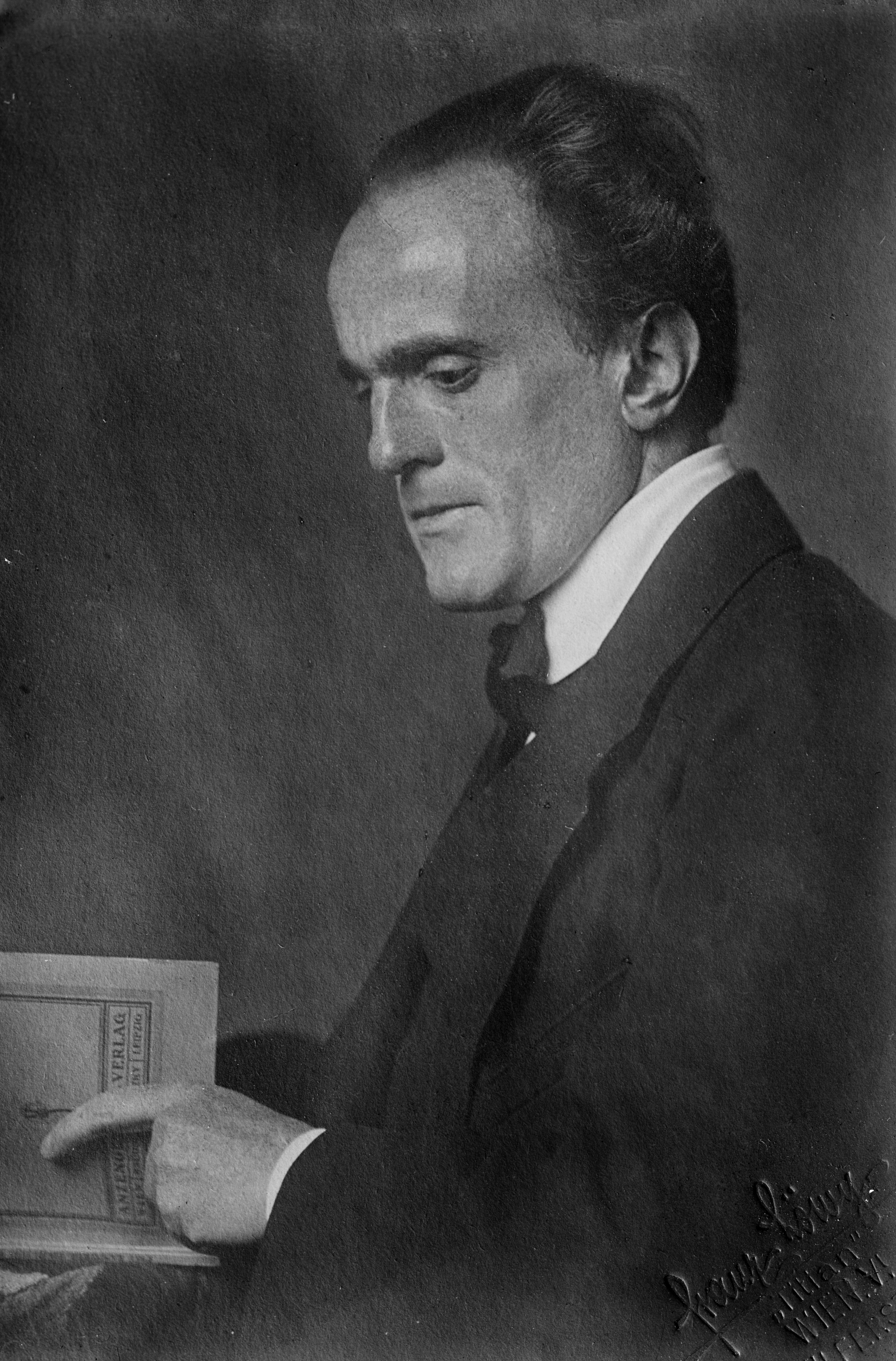 Austrian zoologist Paul Kammerer (1880-1926)